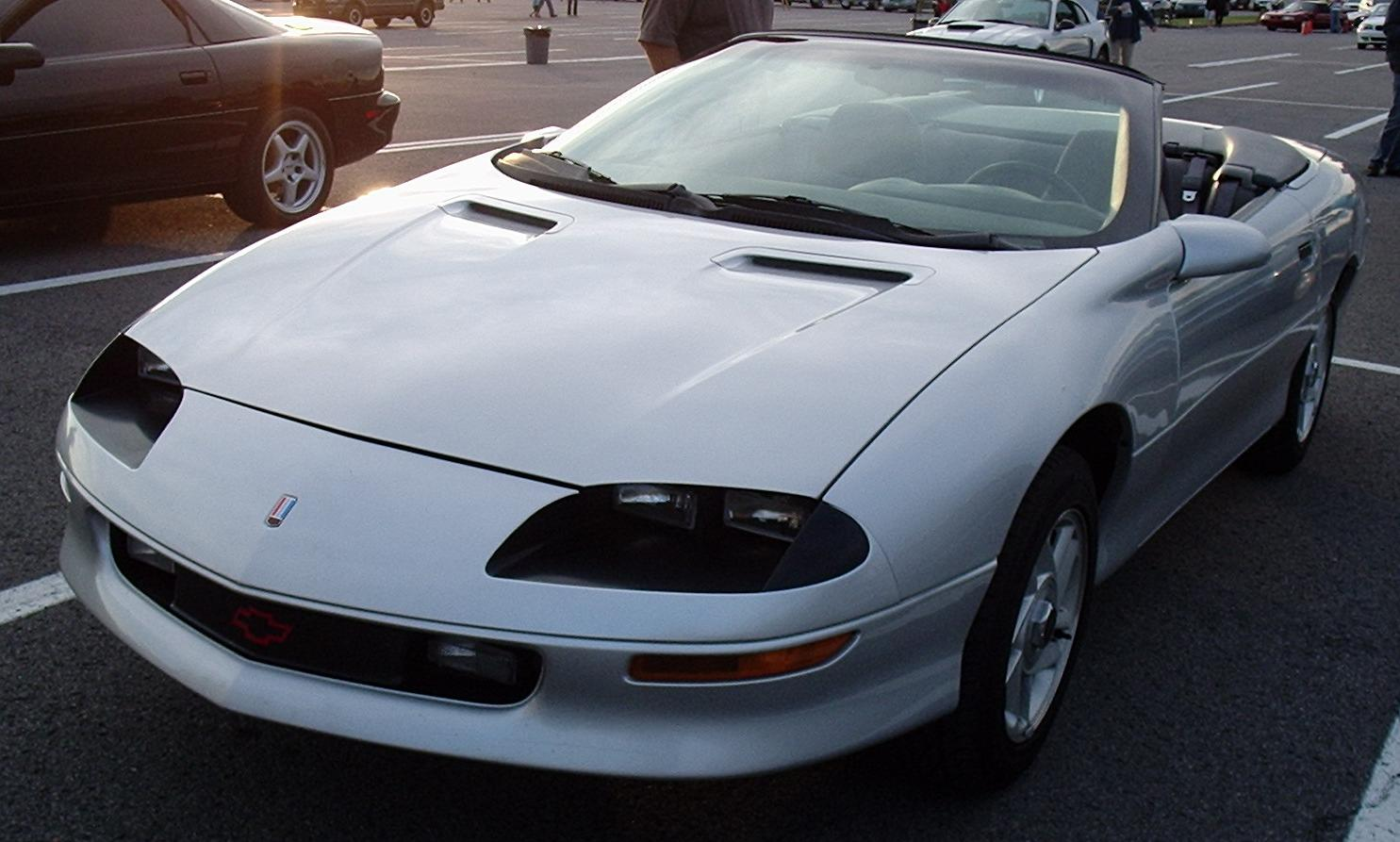 Chevrolet Camaro photographed in Laval, Quebec, Canada at Les chauds vendredis.